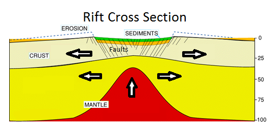 General cross section of a typical rift.